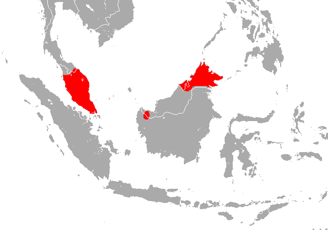 Ridley's Leaf-nosed Bat (Hipposideros ridleyi) range